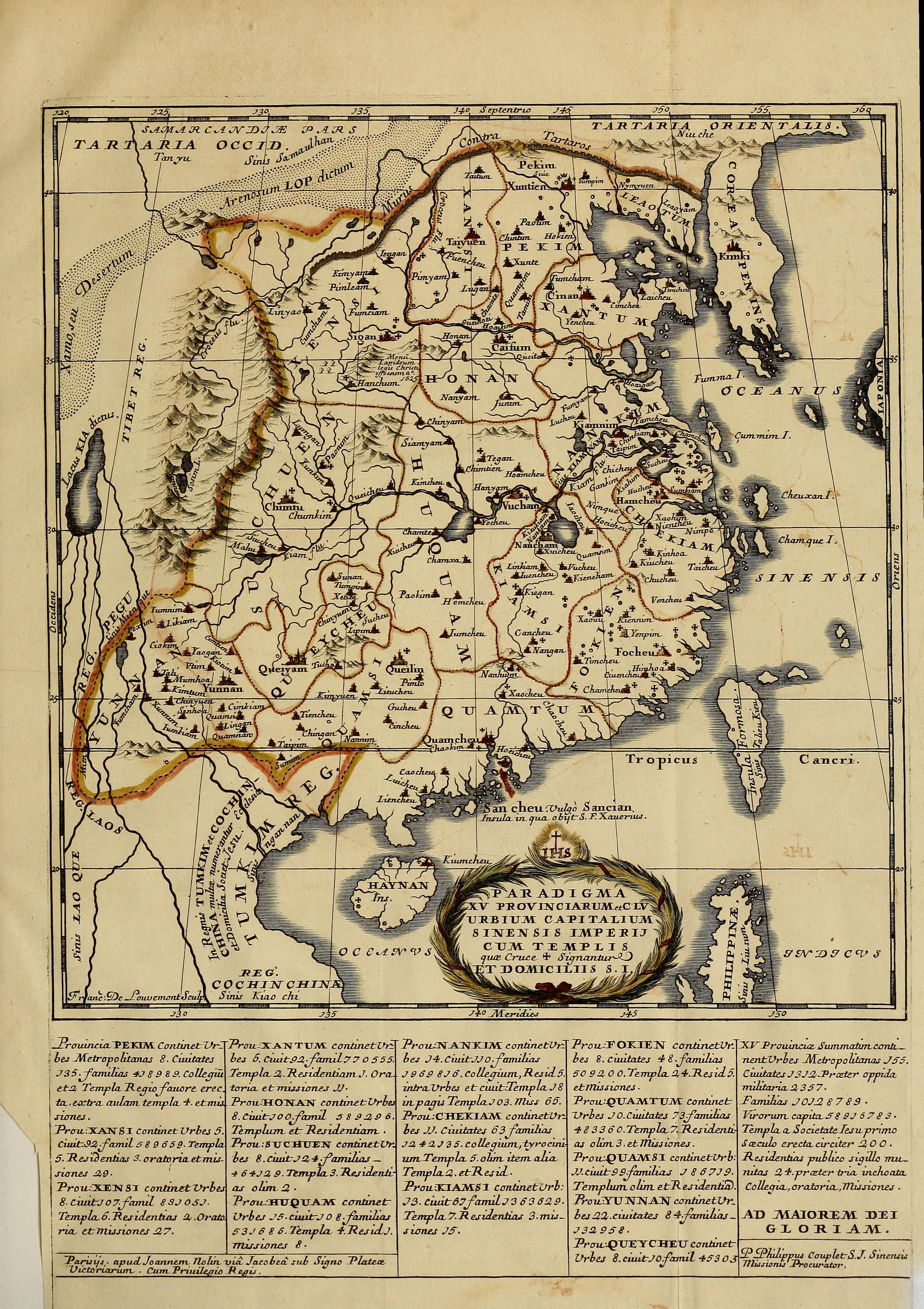 "A Map of the 15 Provinces and 155 Capital Cities of the Chinese Empire", with descriptive text below, from Confucius, the Philosopher of the Chinese, Bk III, between pages 104 & 105. Note the southward course of the Yellow River (Croceus Flu.), which it followed for centuries before the 1850s floods.